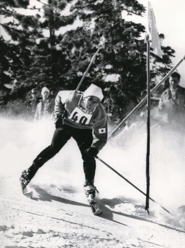 1960 Press Photo Masayoshi Mitani during the Winter Olympic Games - nes15776